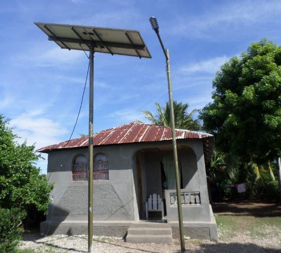 This clinic is solar powered to provide electricity to the refrigerator storing rabies vaccine.